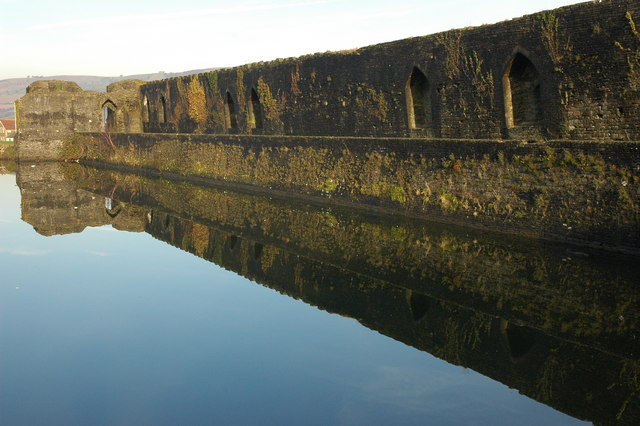 The North Dam, Caerphilly Castle The North Dam of Caerphilly Castle was built around 1280 by Gilbert de Clare. It created the North Lake thus adding to the defences of the castle.